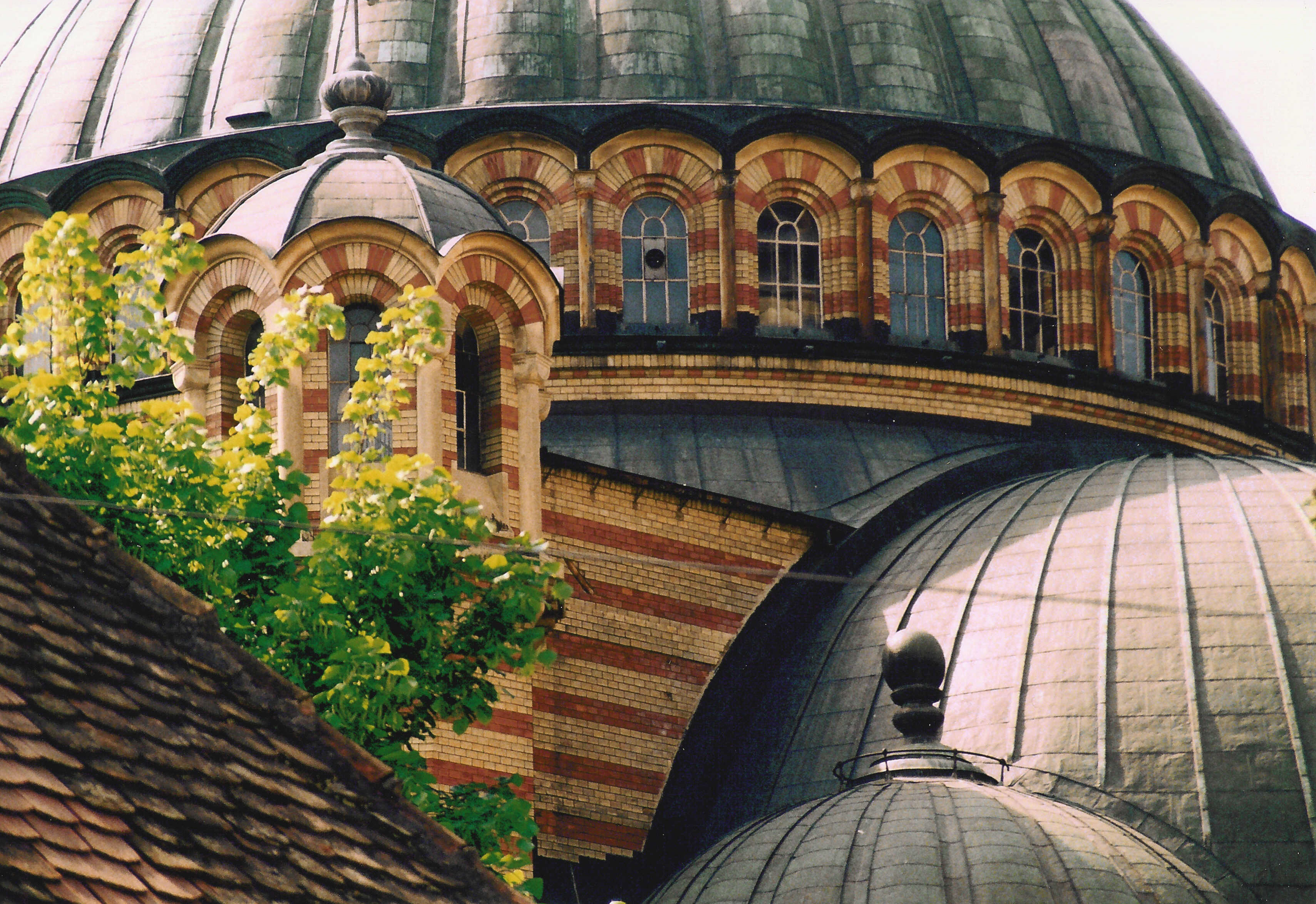 Close-up view of the Orthodox Cathedral, Sibiu, Romania.